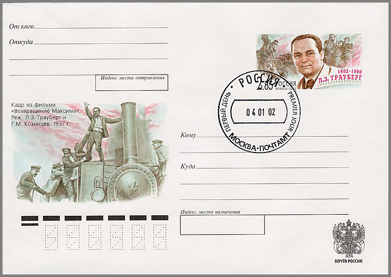 Russia, 2002. EWCS №111. 100th anniversary of the birth Leonid Trauberg, filmmaker. Postmark the first day of issue 4.01.2002 Moscow, Central Post Office.